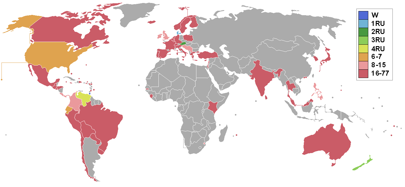 created by joey80